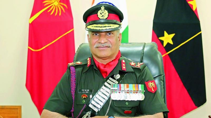 Major General NS Rao portait image